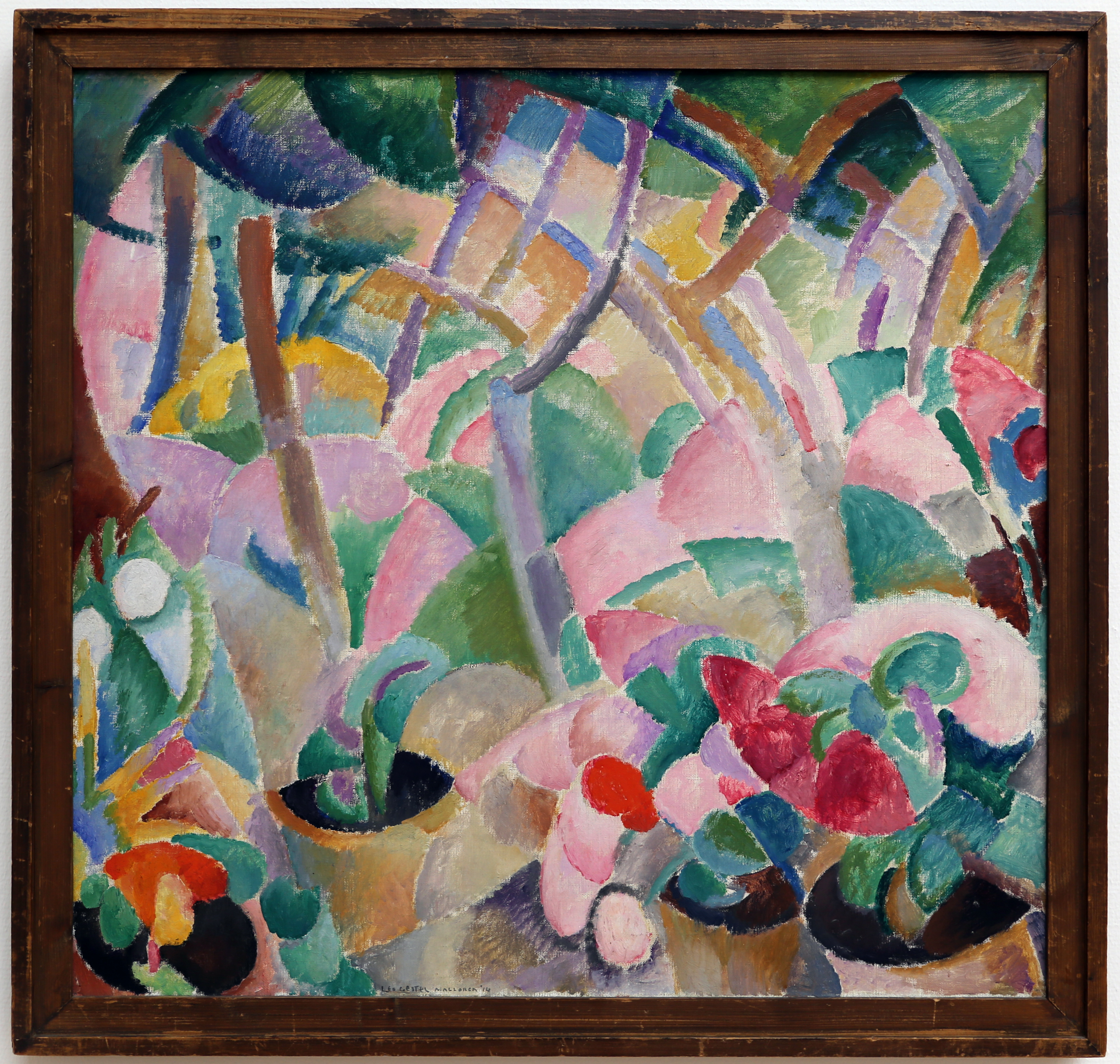 Paintings in the Gemeentemuseum Den Haag